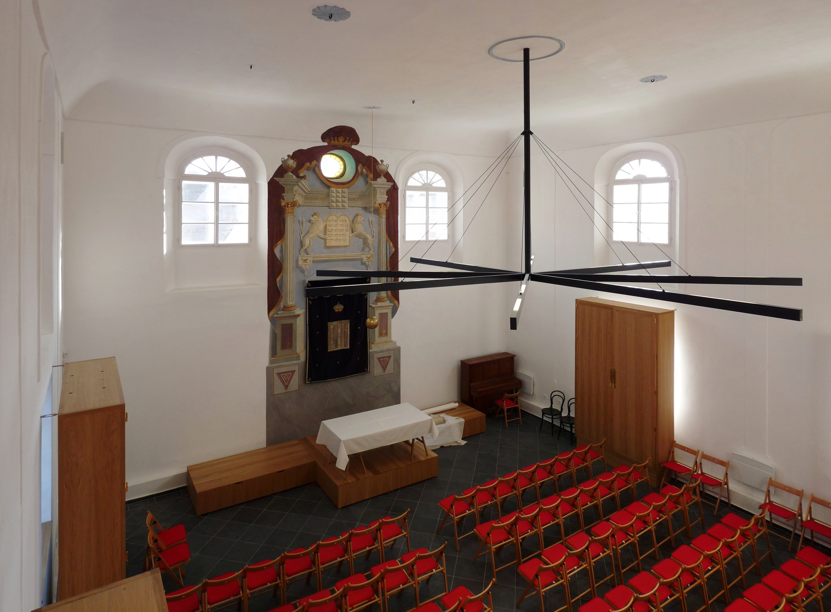 Main hall of the synagogue in the municipality of Čkyně, Prachatice District, South Bohemian Region, Czech Republic.